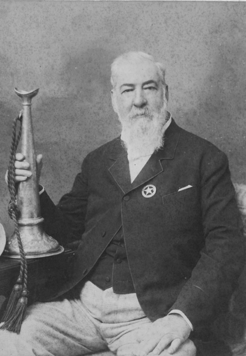 Alexander Joy Cartwright, Jr. (April 17, 1820 – July 12, 1892)